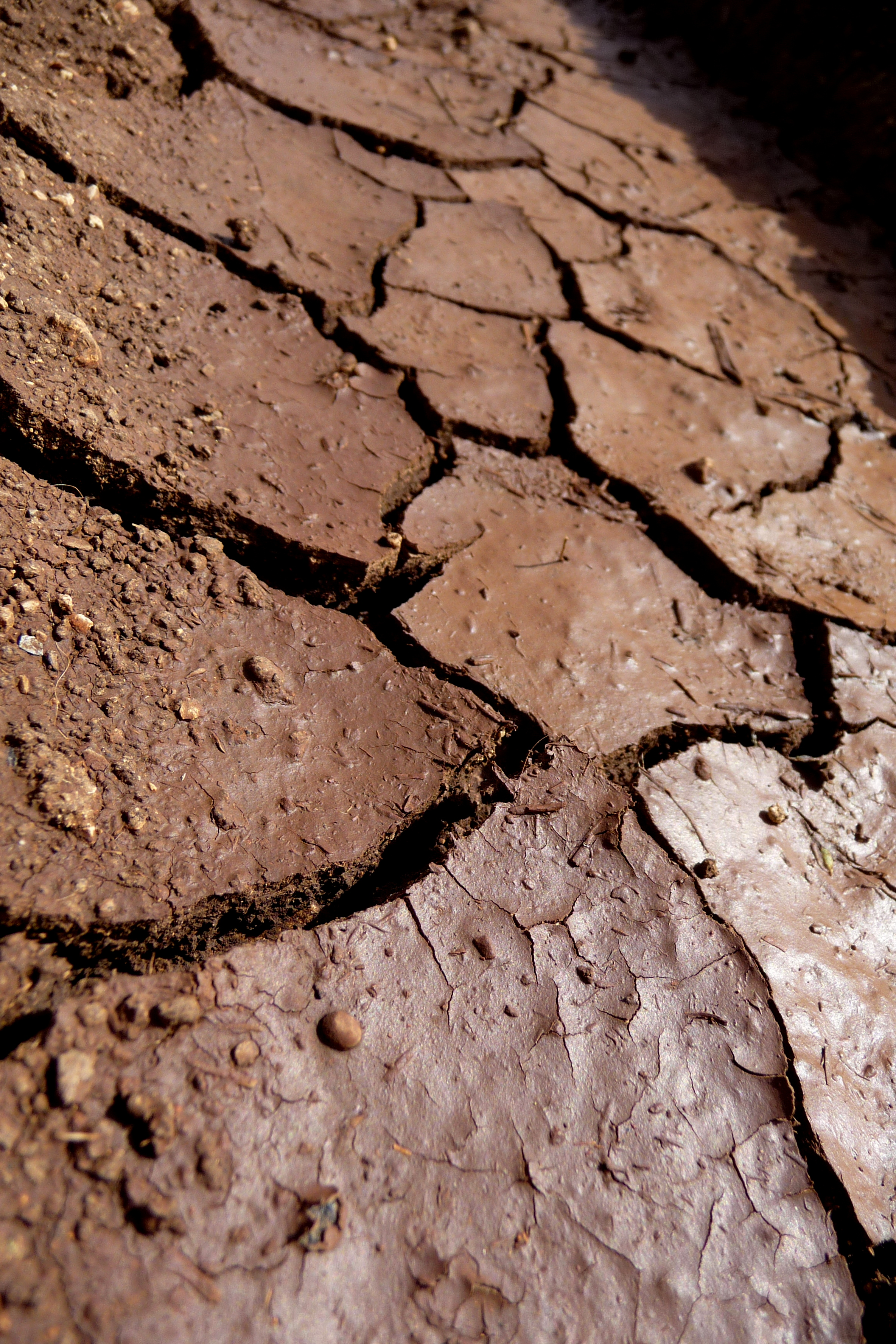 Carmel Park